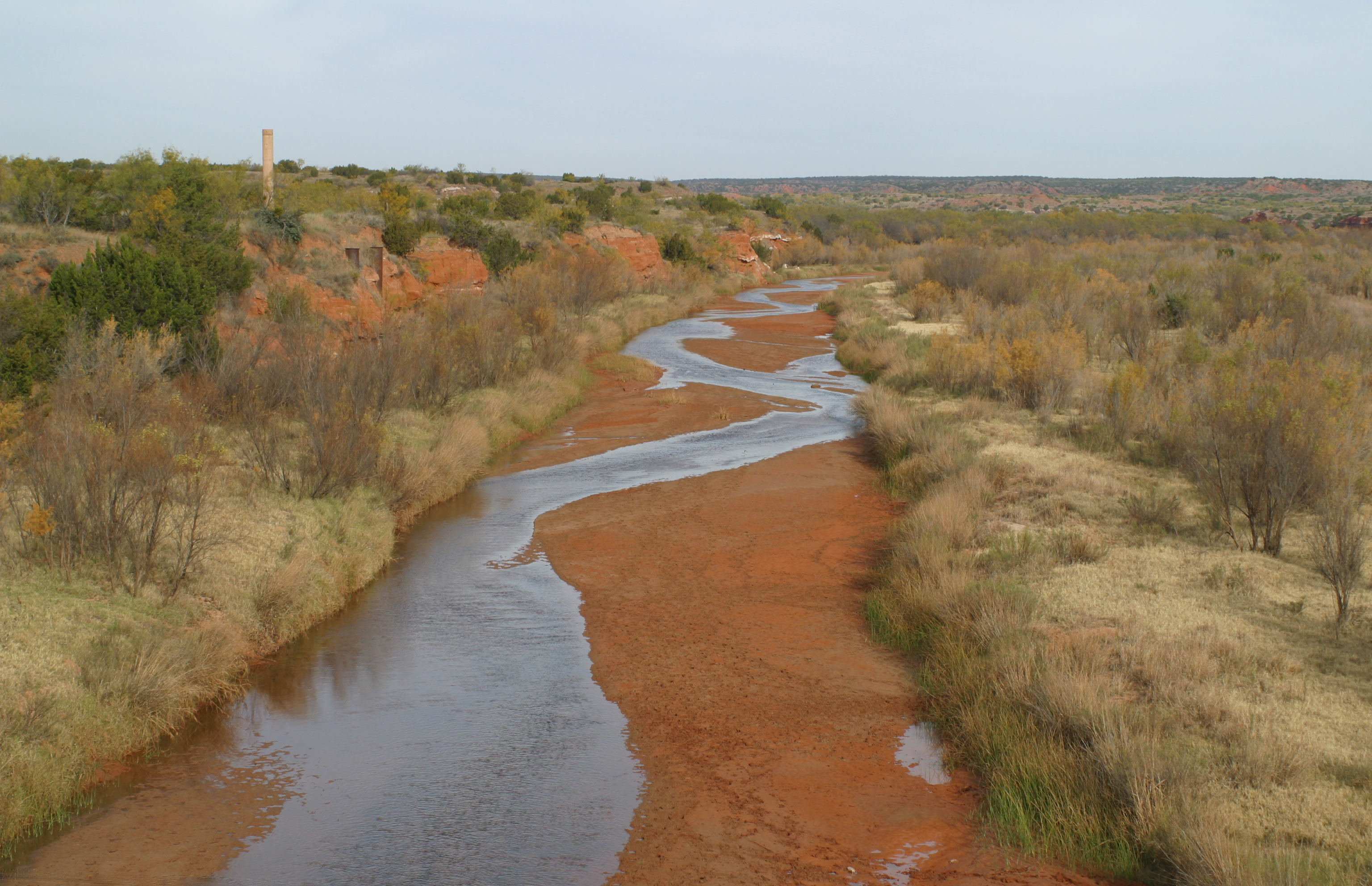 Double Mountain Fork Brazos River — as seen from Texas State Highway 208, south of Clairemont, in Kent County, West Texas. It is a tributary of the Brazos River, in the Llano Estacado region.